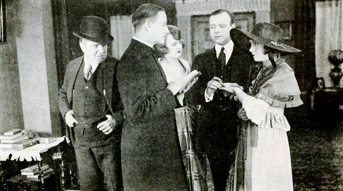 Still from the American film Way Down East (1920) with Lillian Gish and Lowell Sherman in the sham wedding scene. On page 74 of Peter Milne, Motion Picture Directing; The Facts and Theories of the Newest Art (1922).